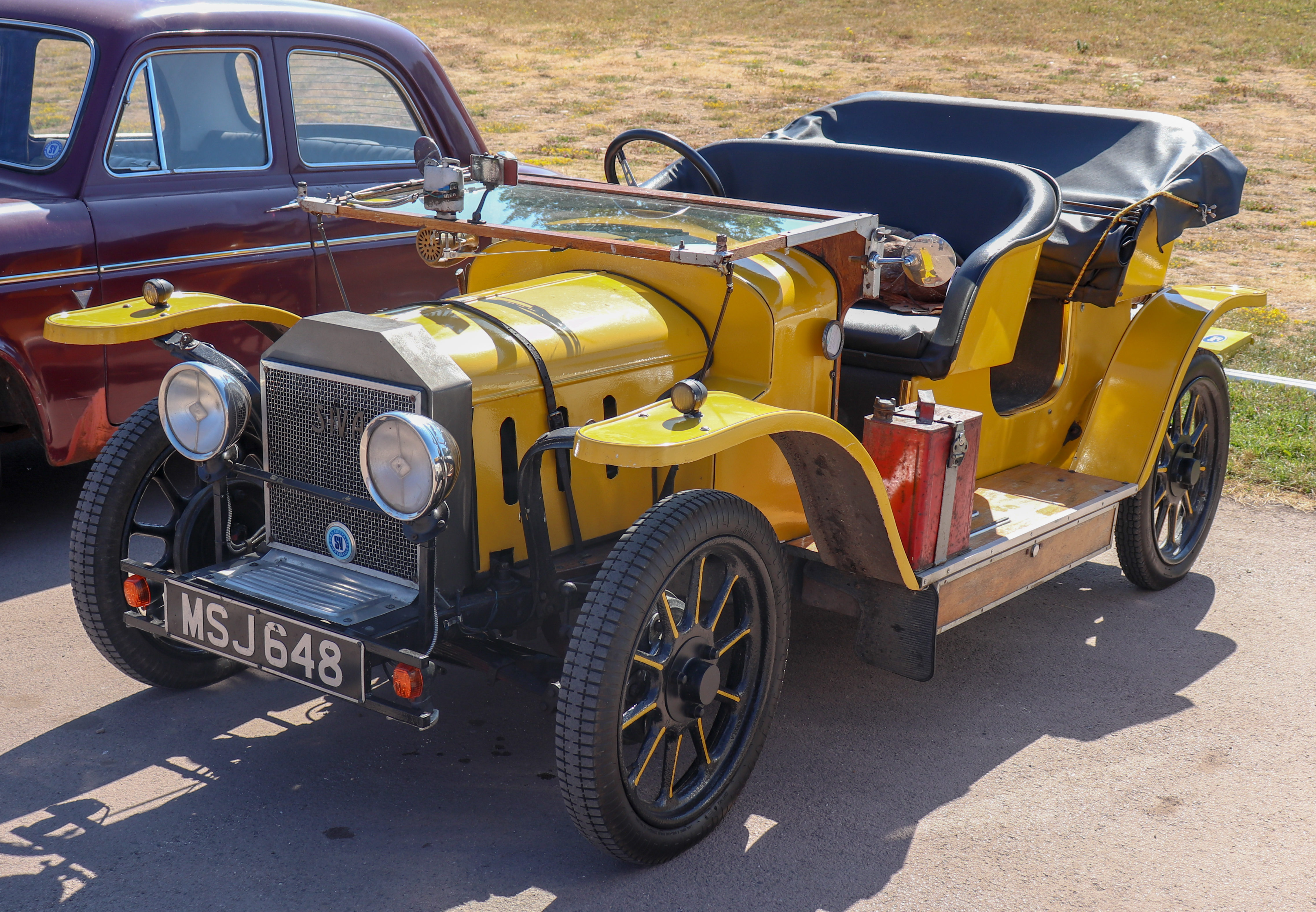 1969 Siva Edwardian Tourer replica 1.0 Front Taken at the British Motor Museum Old Ford Rally 2018, Gaydon